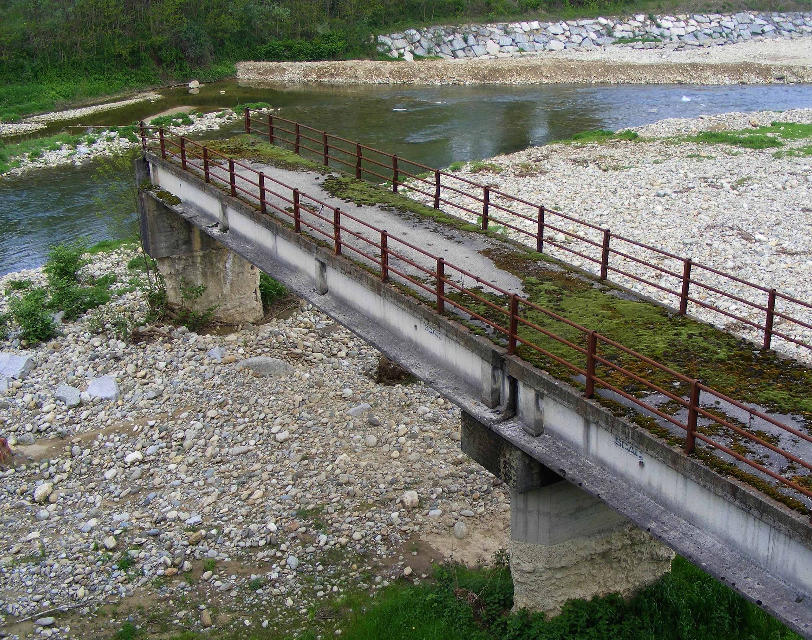 A temporary bridge (nowadays wrecked) built in 1977 on the Elvo near Cerrione (BI, Italy)